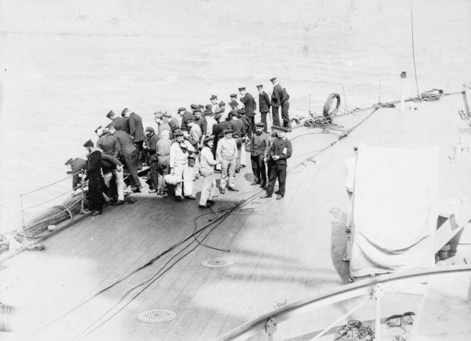 Survivors from the French battleship Bouvet coming on board HMS Agamemnon on 18 March 1915 during the Anglo-French naval attempt the Dardanelles. The Bouvet struck a Turkish mine and sank with the loss of over 600 of her crew.